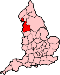 A map of England highlighting the traditional (pre-1974) borders of Lancashire